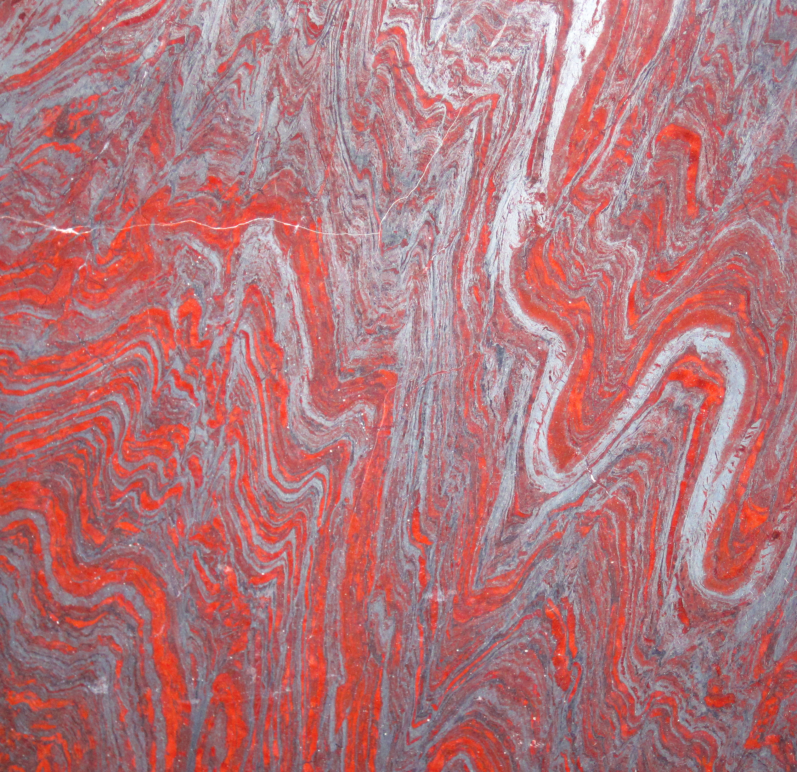 Hollywood Granite - jaspilite meta-BIF (locally called itabirite) from the Paleoproterozoic-aged Minas Supergroup in the Iron Quadrangle District in Minas Gerais State, Brazil. BIFs in the Iron Quadrangle have long been mined as a source of iron ore. Recently, BIFs there have been quarried as a source of attractive, high-priced, and very-heavy-for-their-size decorative stones. Banded iron formations, or BIFs, are extinct, marine sedimentary rocks (most have been well metamorphosed) that usually consist of alternating reddish- and silvery-gray iron-rich layers. They are most common in the Paleoproterozoic rock record (2.5 to 1.6 Ga). They represent a time when Earth’s oceans “rusted out” as small amounts of atmospheric free oxygen (O2 gas) combined with dissolved iron in seawater to precipitate as iron oxide minerals. Some workers hypothesize that bacterial mats on the seafloor mediated the precipitation of iron oxides. Many specific varities of BIFs exist, including jaspilite, taconite, quartzite-specularites, magnetitites, etc.